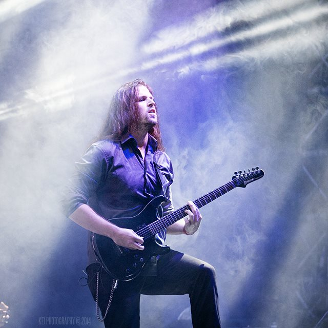 Johan Reinholdz live w/ Andromeda in Vietnam